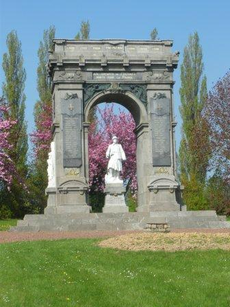 The monument aux morts at Proyart in the Somme department, hauts-de-France region (before Picardie region).